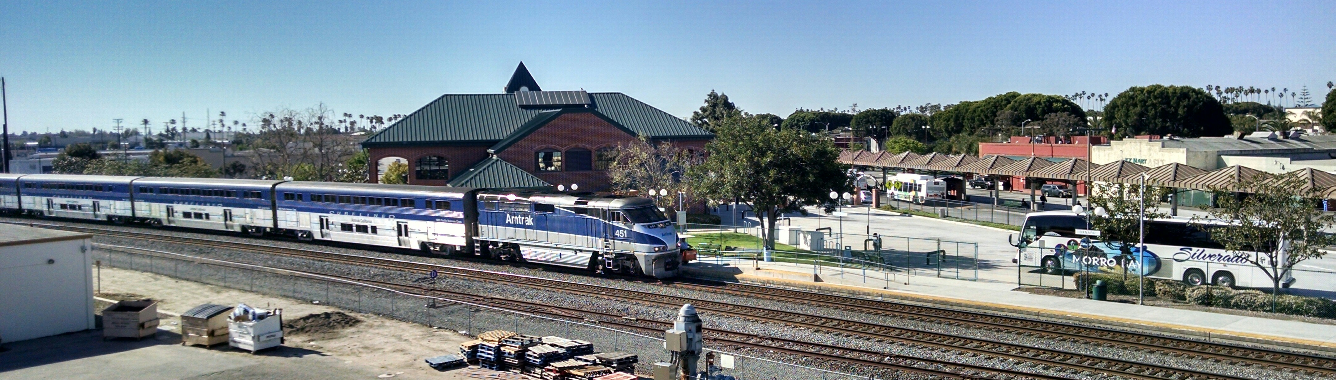 Northbound Surfliner pulling into station